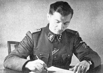 SS-Untersturmführer Mikhail Levenets in 14th Waffen Grenadier Division of the SS (1st Galician)